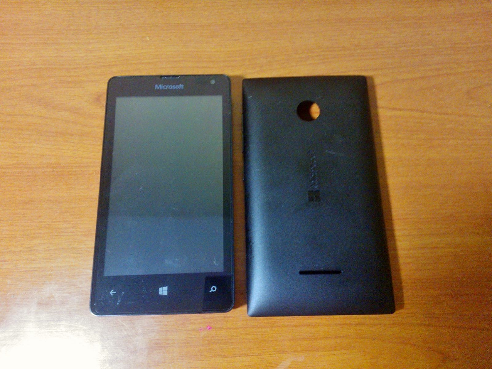 Microsoft Lumia 435.